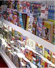 Picture based on Image:Zeitschriften.JPG (licence:GFDL)